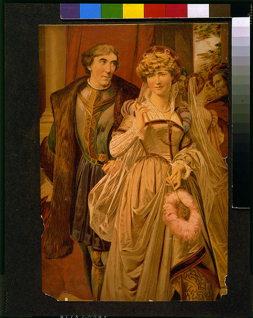 Title: Henry Irving and Ellen Terry as Benedick and Beatrice in "Much ado about nothing" Abstract/medium: 1 print : chromolithograph.